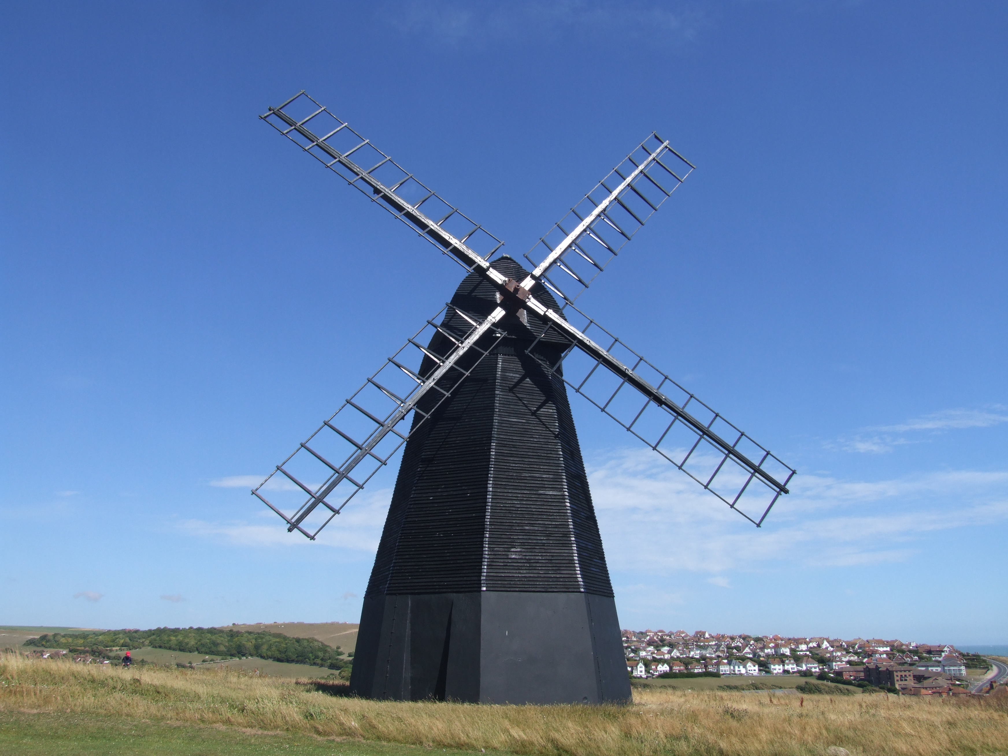 Rottingdean, Sussex: old smock mill dating from 1802.